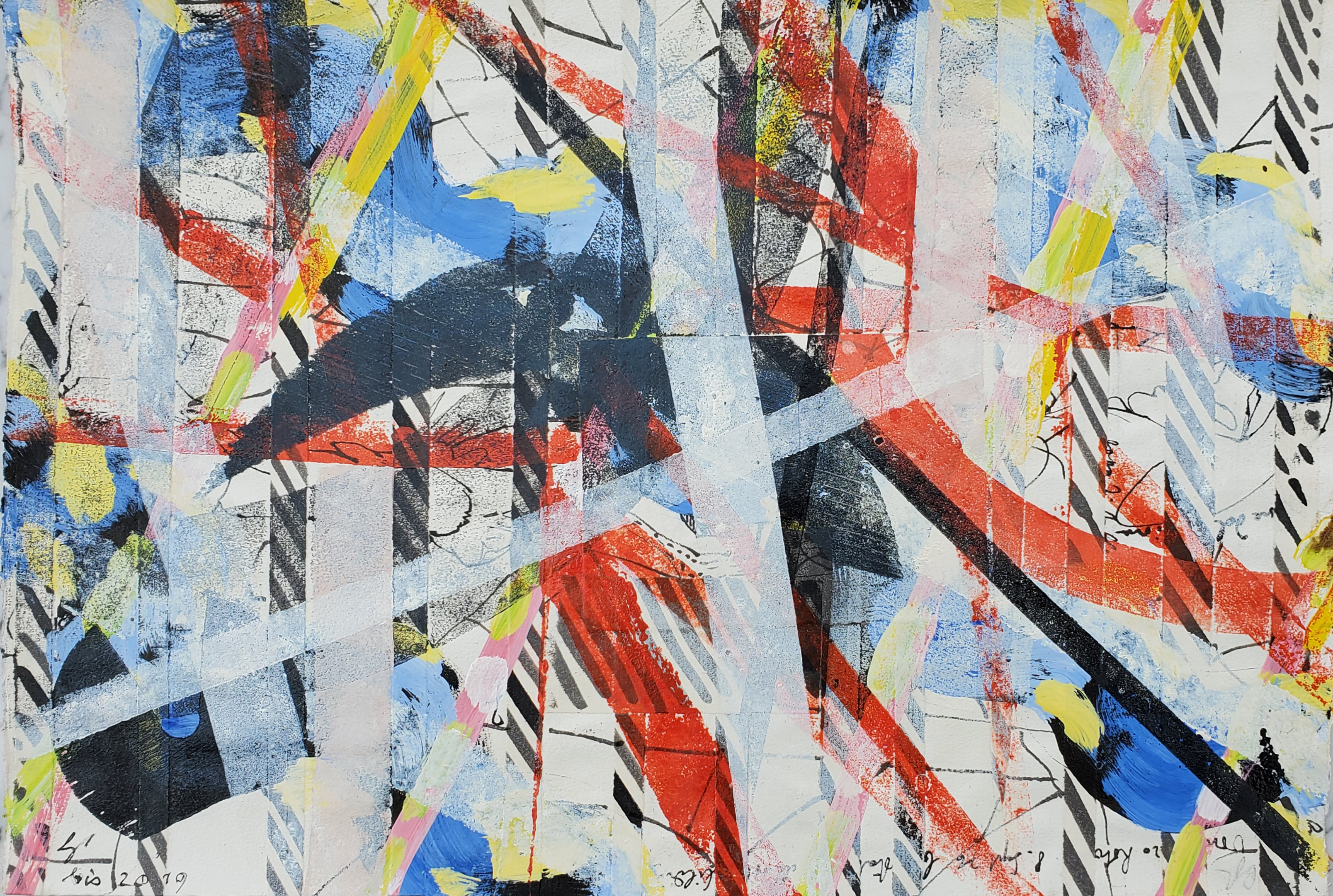 Painting of Burkhart Beyerle